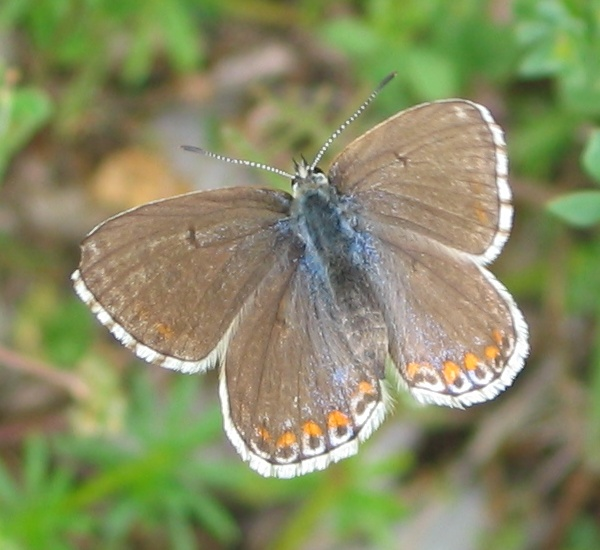 Adonis Blue, female